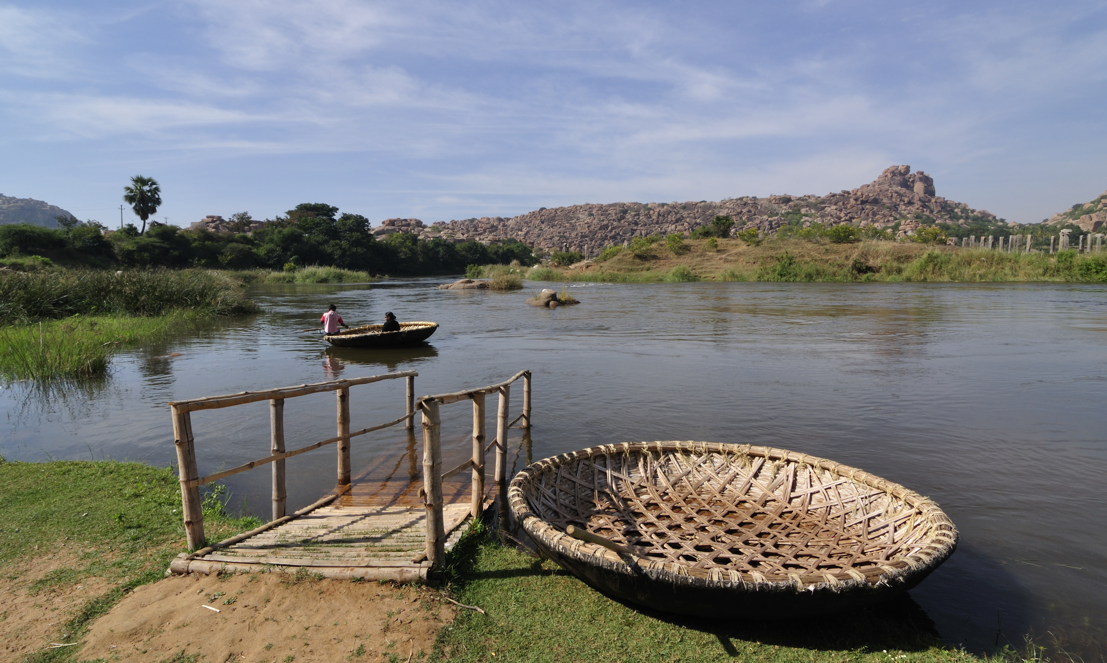 Coracle boats are round-shaped non-polluting boats that are used for transport in Tungabhadra river since ages. These boats are very stable by nature and can carry 10-15 persons easily. Navigation is not difficult but it requires skills especially when going upstream. Its part of the local lifestyle in Hampi, Karnataka and is an attraction for tourists coming to this part of the world. Note: This photograph uses Adobe RGB color space. It is recommended that the photograph be viewed in a browser/image viewer that supports non-sRGB color space. Safari and Firefox include non-sRGB color space support by default.